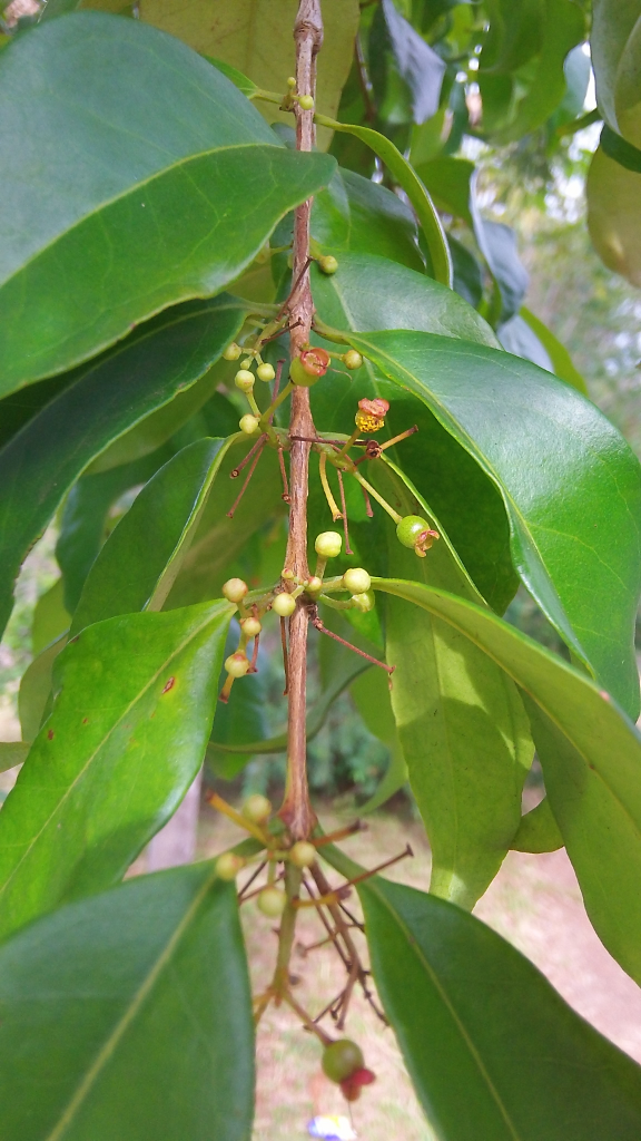 Eugenia candolleana (Rainforest plum, cambuí roxo, murtinha); flower buds and early immature fruit. Picture taken in Campinas, SP, Brazil by J. Stolfi on 2012-04-26, with a Kodak Playsport; reduced to 1/3 size with GIMP.